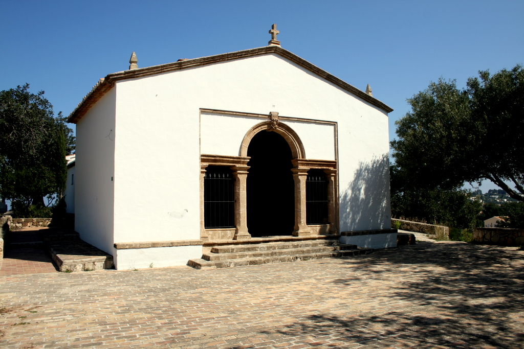 San Joan chapel, in Denia (Alicante), Spain.